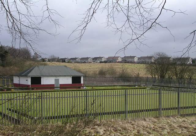 Stoneyetts Bowling Club near Moodiesburn. Formerly linked with Stoneyetts Hospital which doesn't exist any more